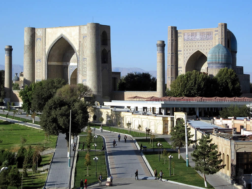 The Bibi-Khanym Mosque in Samarkand, Uzbekistan, was finished just prior to Tamerlane's death in 1405.